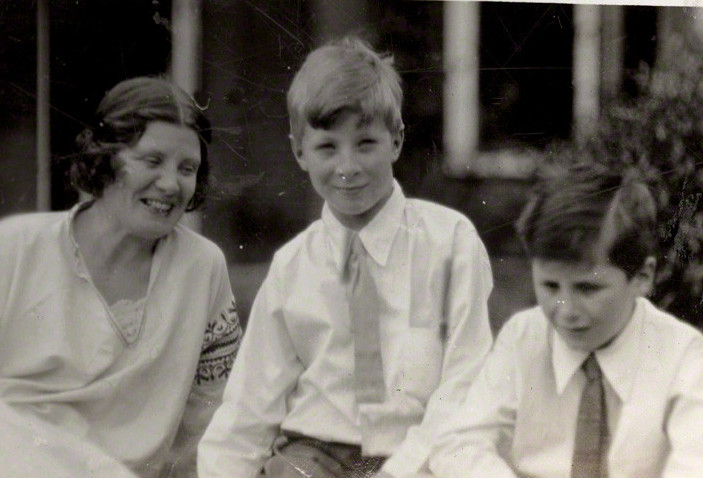 Lella Secor Florence (February 13, 1887 – January 14, 1966), née Lella Faye Secor, was an American writer, journalist, pacifist, feminist and pioneer of birth control by Unknown photographer, vintage snapshot print, late 1920s